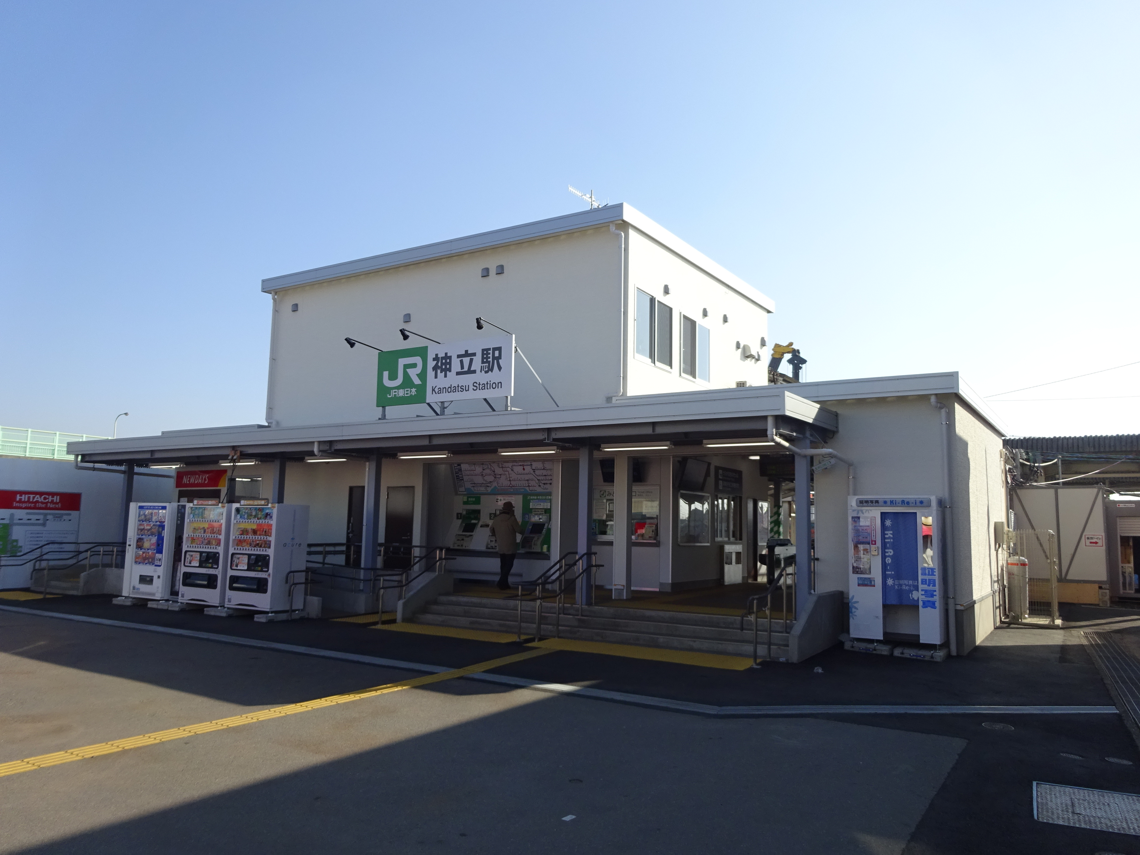 Temporary building of Kandatsu Station